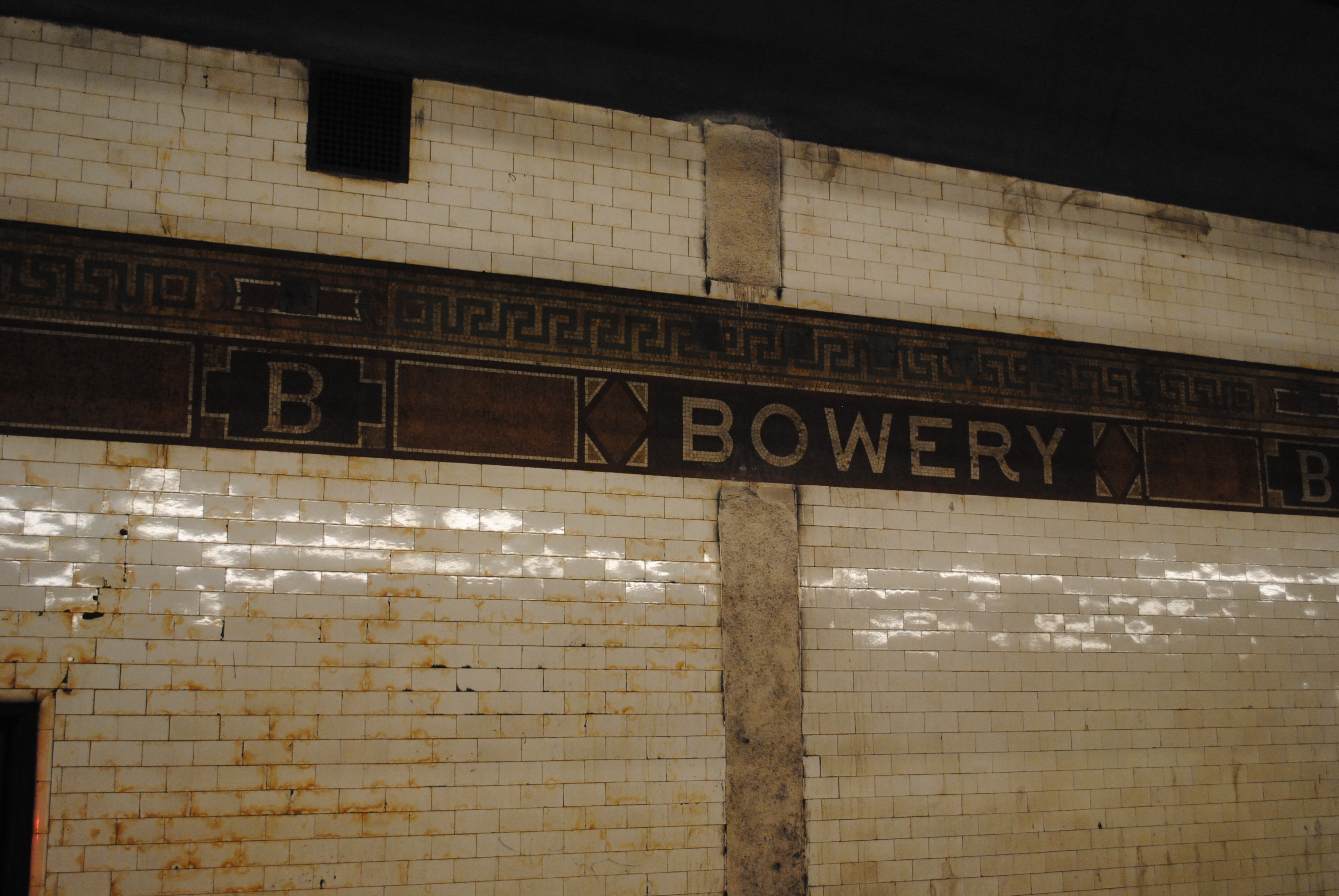 Bowery Street Station